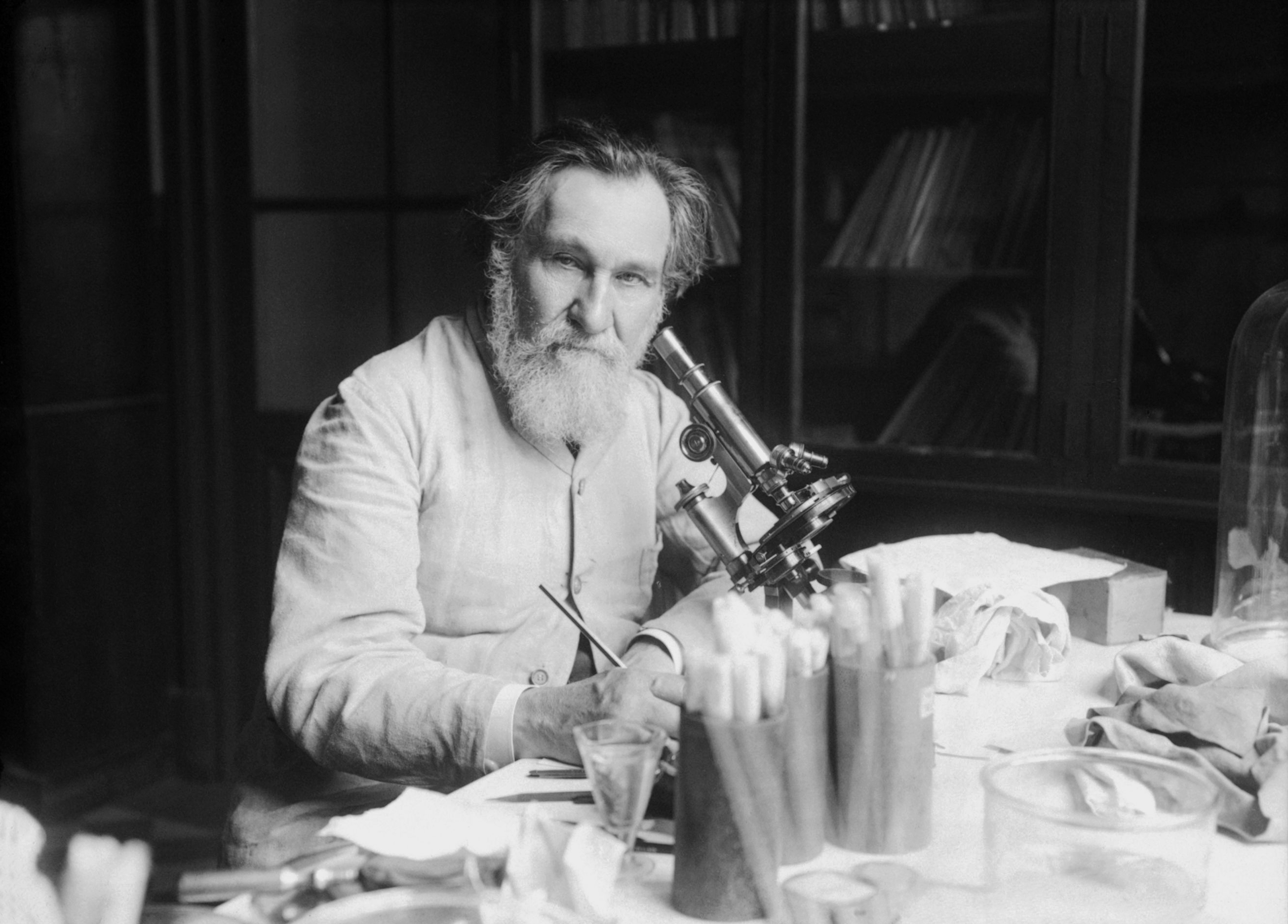 Photograph of Nobel Prize winner, Ilya Ilyich Mechnikov, who discovered phagocytes.